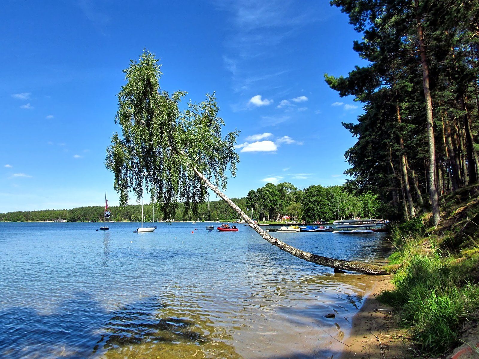 Birch and her swimming pool